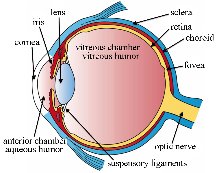 This image shows the basic structure of the eye with the three main layers visible.